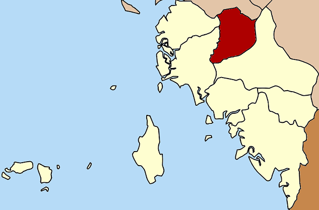 Map of Satun Province, Thailand, highlighting the district Manang (อำเภอมะนัง)